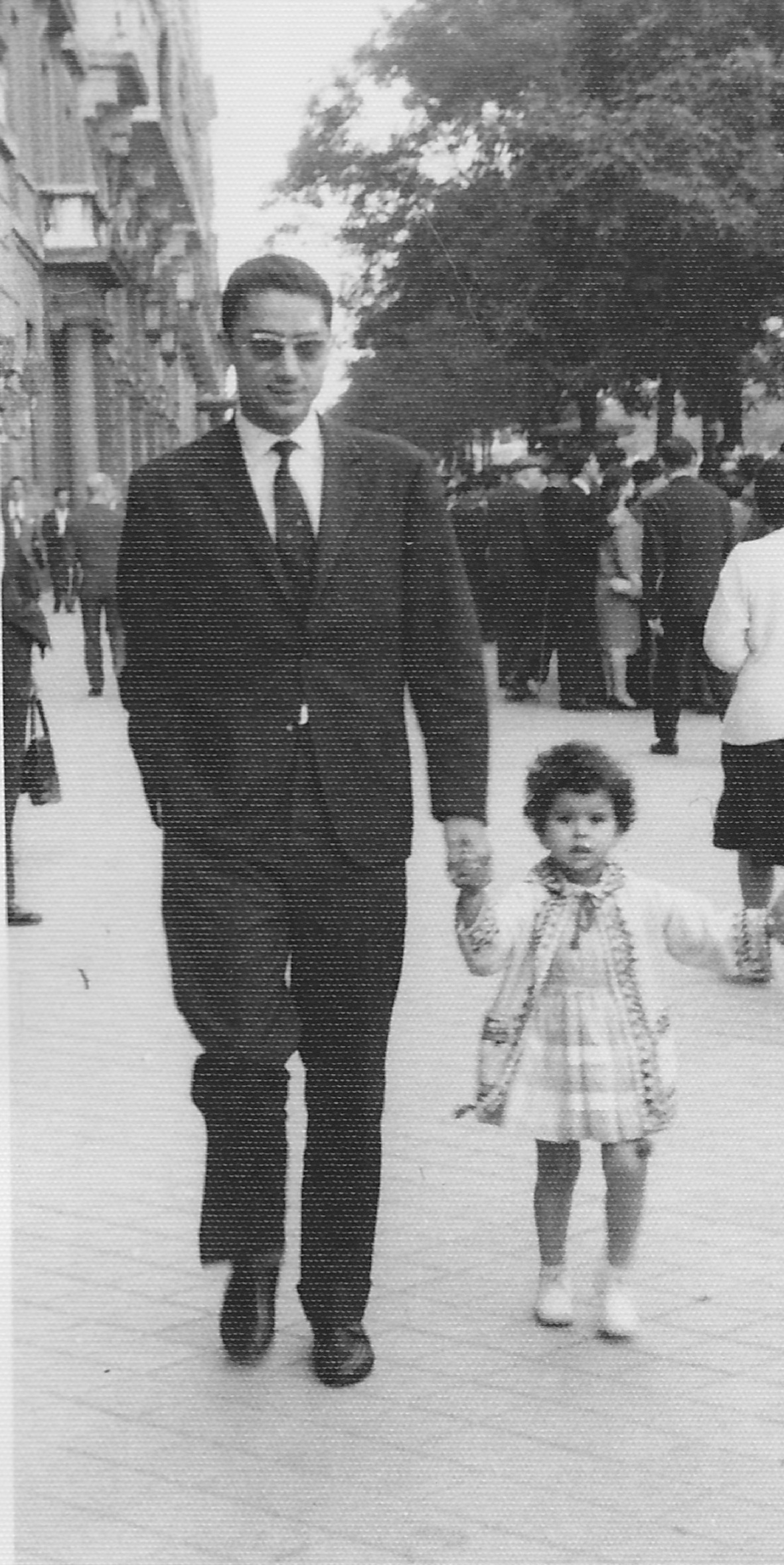 Mohamed Khemisti